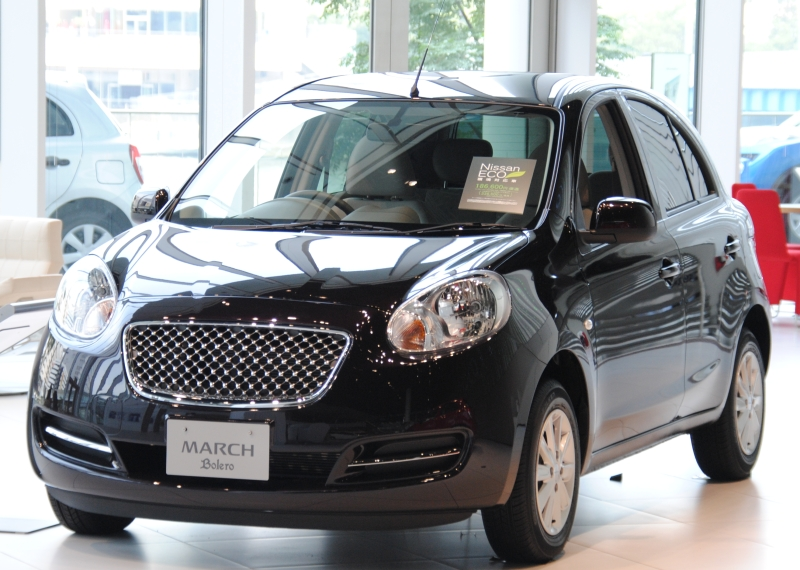 Nissan March Bolero.